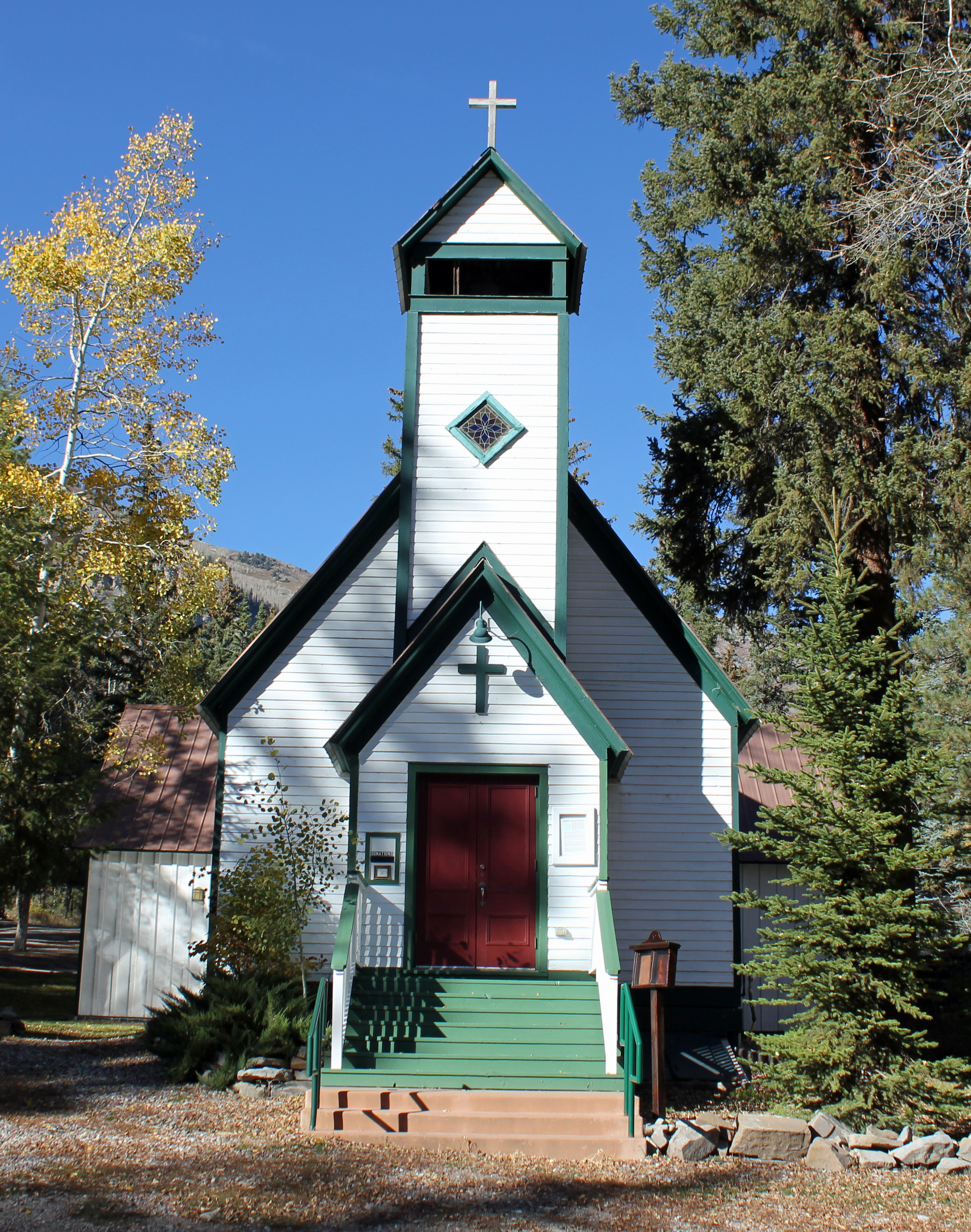 Marble Community Church in Marble, Colorado. The property is listed on the National Register of Historic Places. The church was built in Aspen, Colorado in 1886 as St. John's Episcopal Chapel. It was moved to Marble in 1908 and renamed St. Paul's Church. It's now called Marble Community Church.